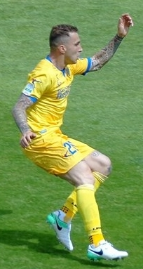 Emanuele Terranova, Frosinone football player